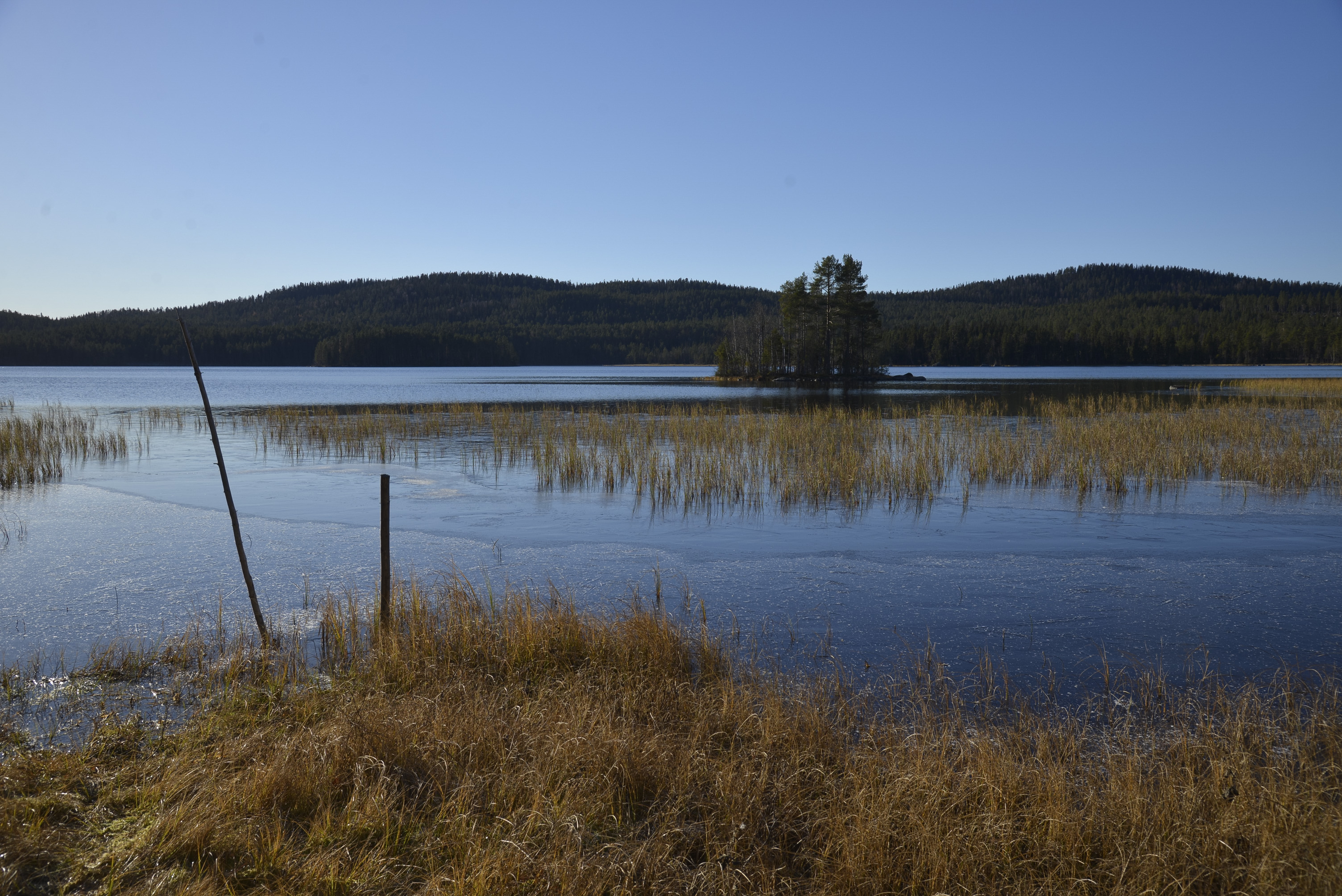 A picture from its northern shore of Ytter-Holmsjön.